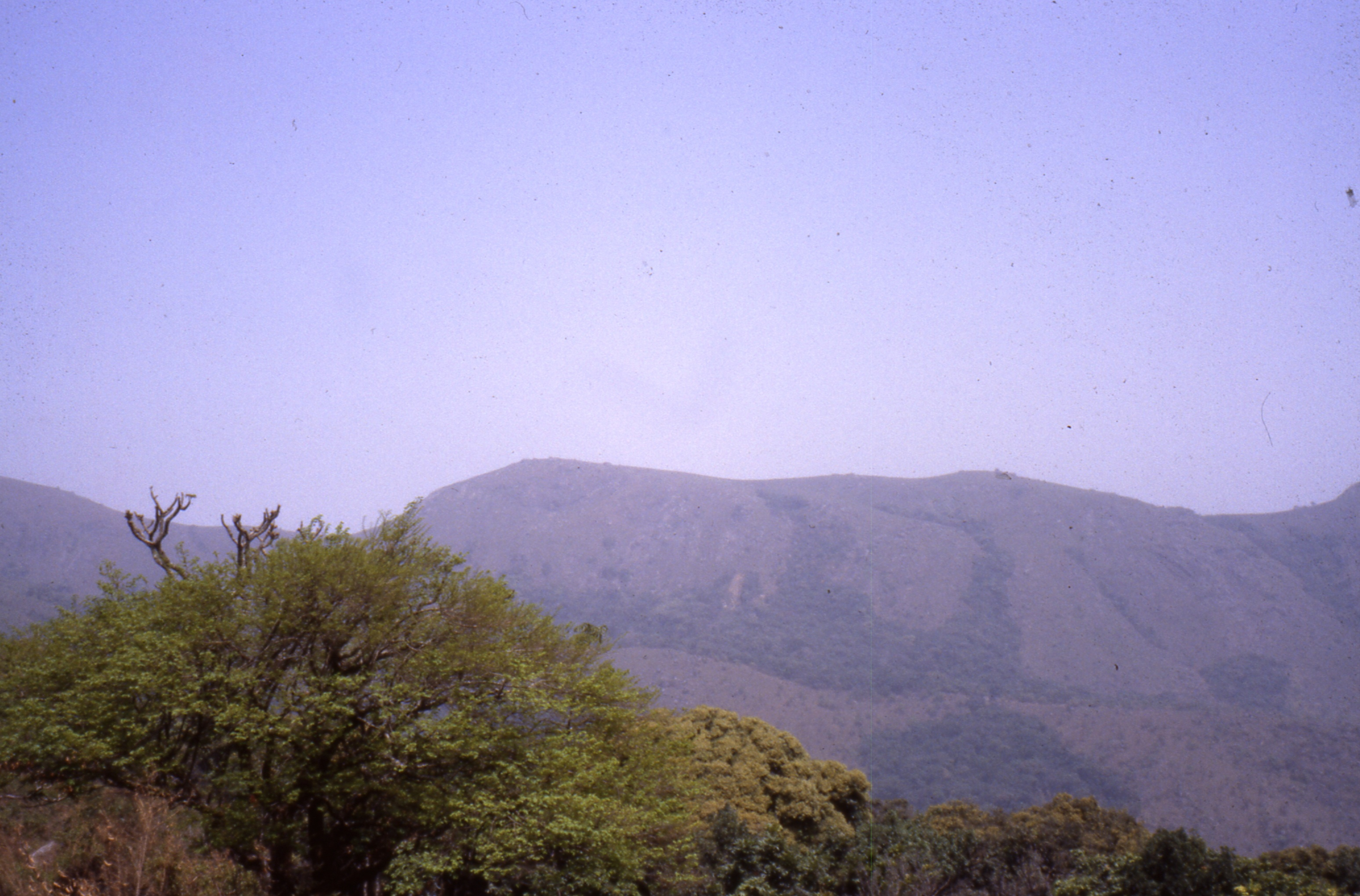 climbing Mount Bintumani 1992 or 93